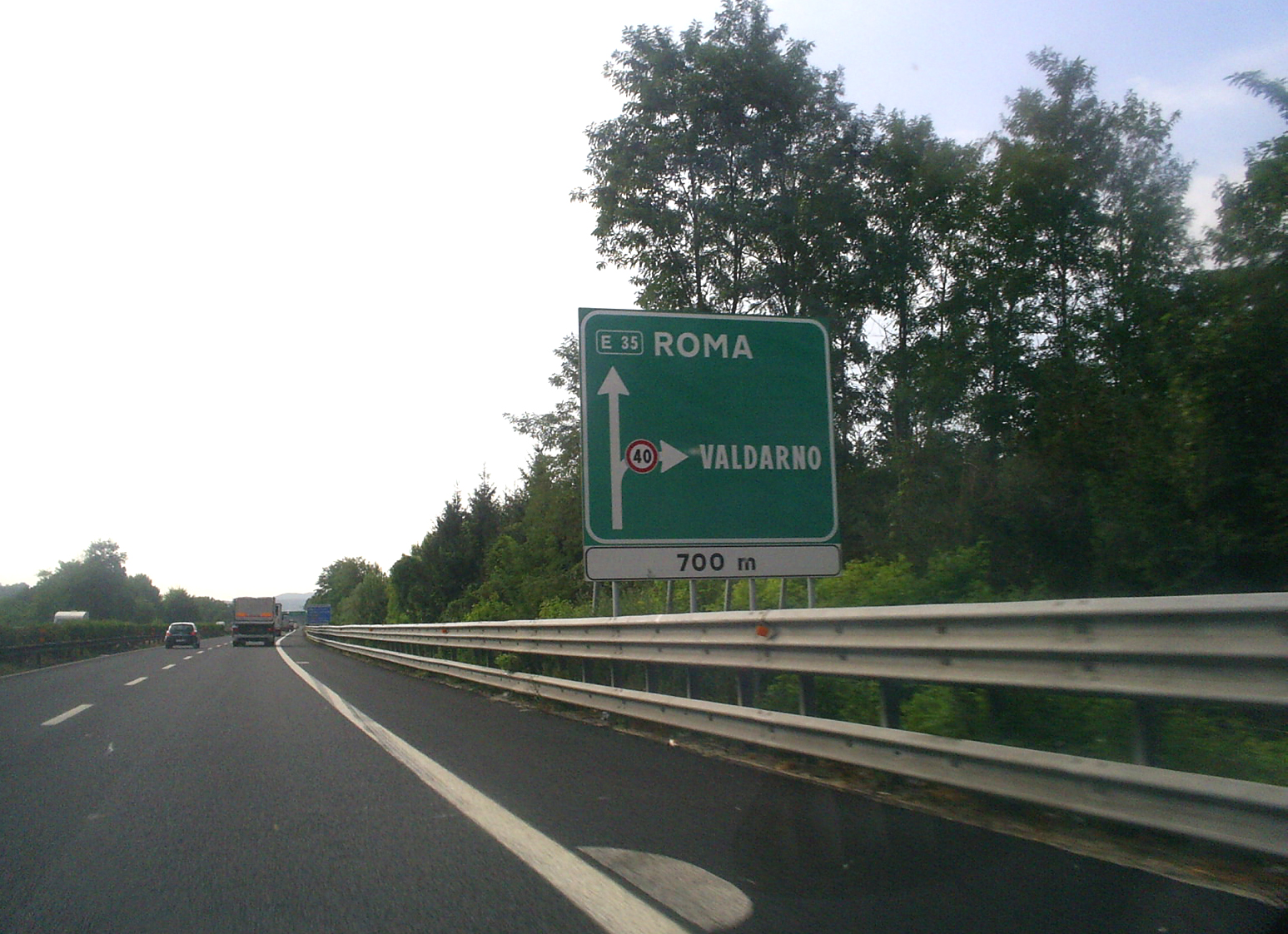 A1 highway, Italy, section Florence - Rome